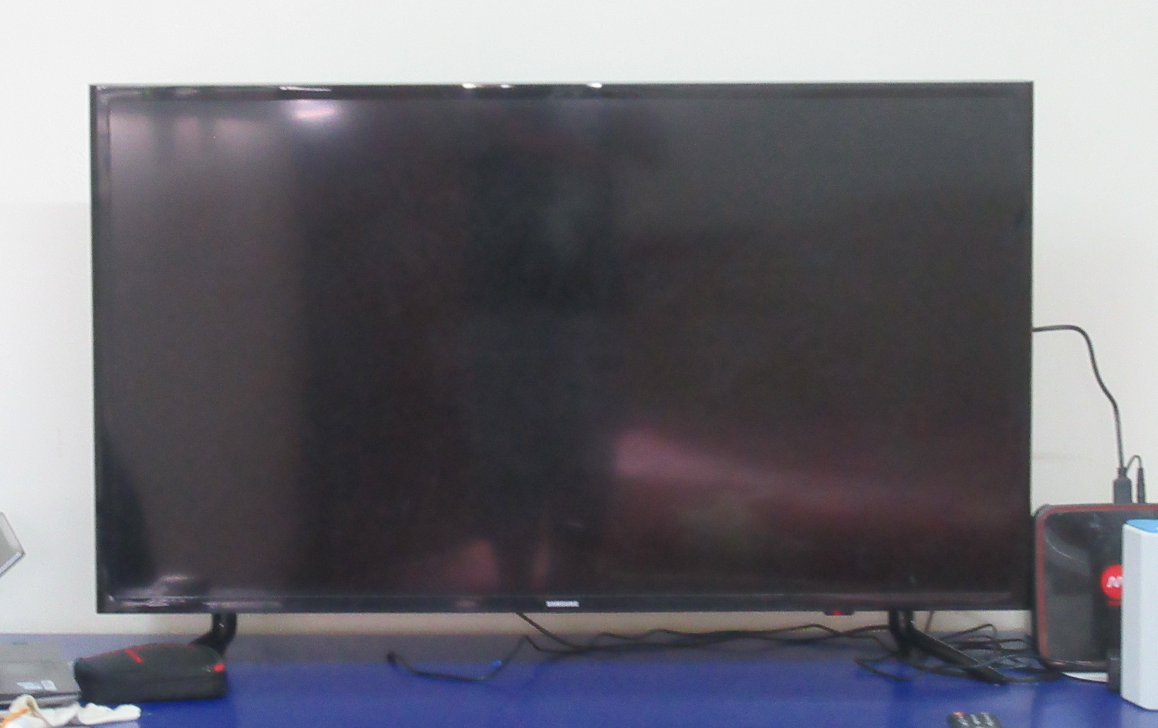 A 40" Samsung Full HD LED TV